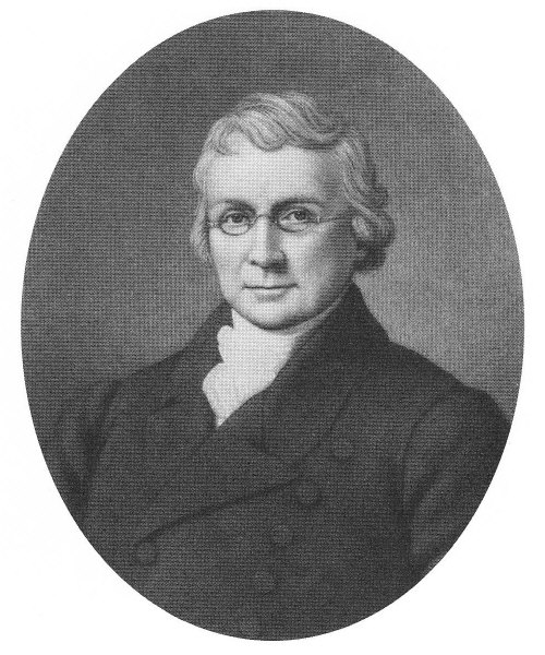 Alexander Brown (1764 — 1834), the Baltimore, Maryland, financier and founder of Alex. Brown & Sons and instrumental in the founding of the Baltimore and Ohio Railroad.